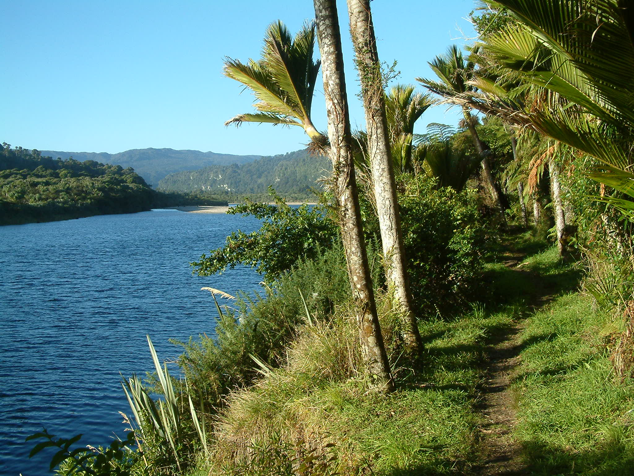 Nikau trees (Rhopalostylis sapida) and the Heaphy River, along the Heaphy Track, South Island, New Zealand